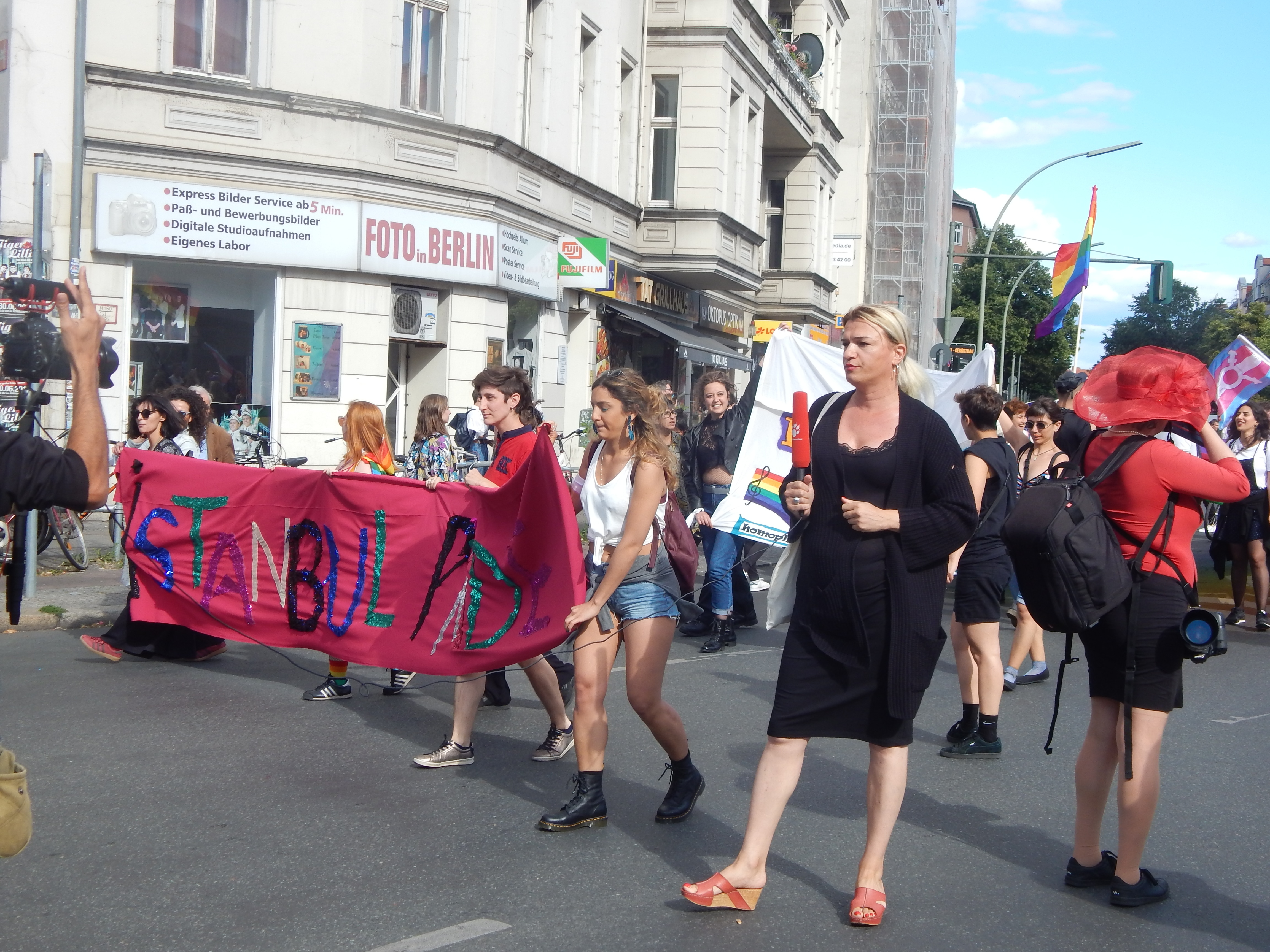 Istanbul Pride Solidarity Demo Berlin 2018, Hermannplatz